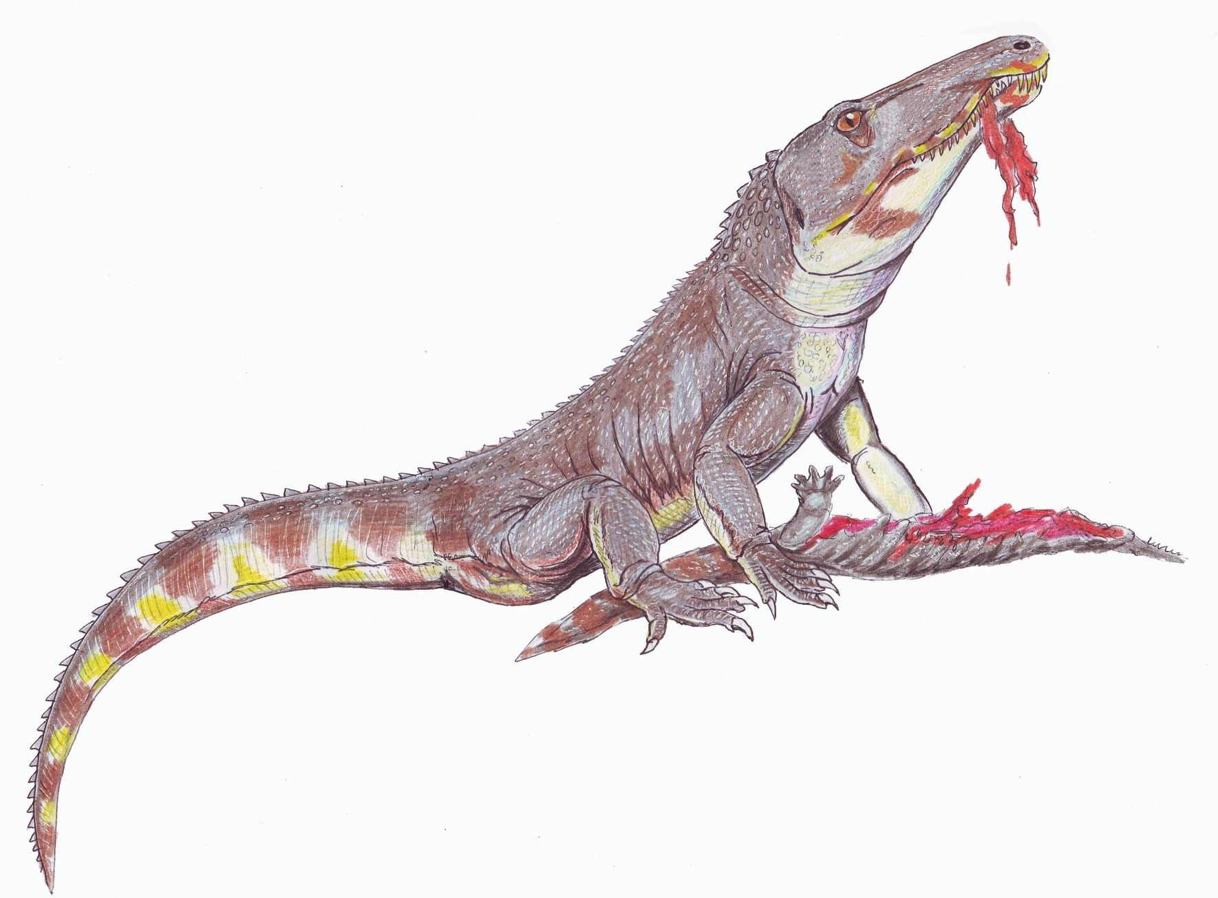 Chasmathosuchus rossicus